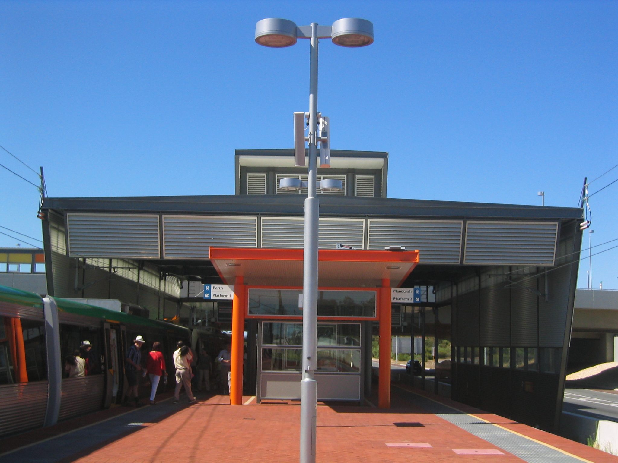 The platform level of Bull Creek Station. The left hand side is platform 1 to Perth, and the right hand side is platform 2 to Mandurah.